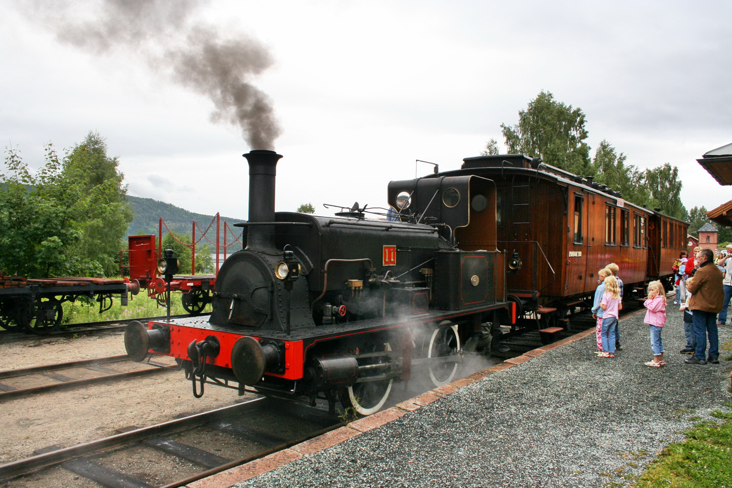 NSB type 7a locomotive (NHJ Type D), this one is named "Ulka". The type 7 was built from 1875-92 and then another round from 1896-98. Total built was 8.